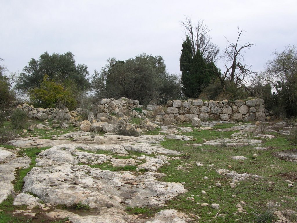 שרידי כפר ערבי